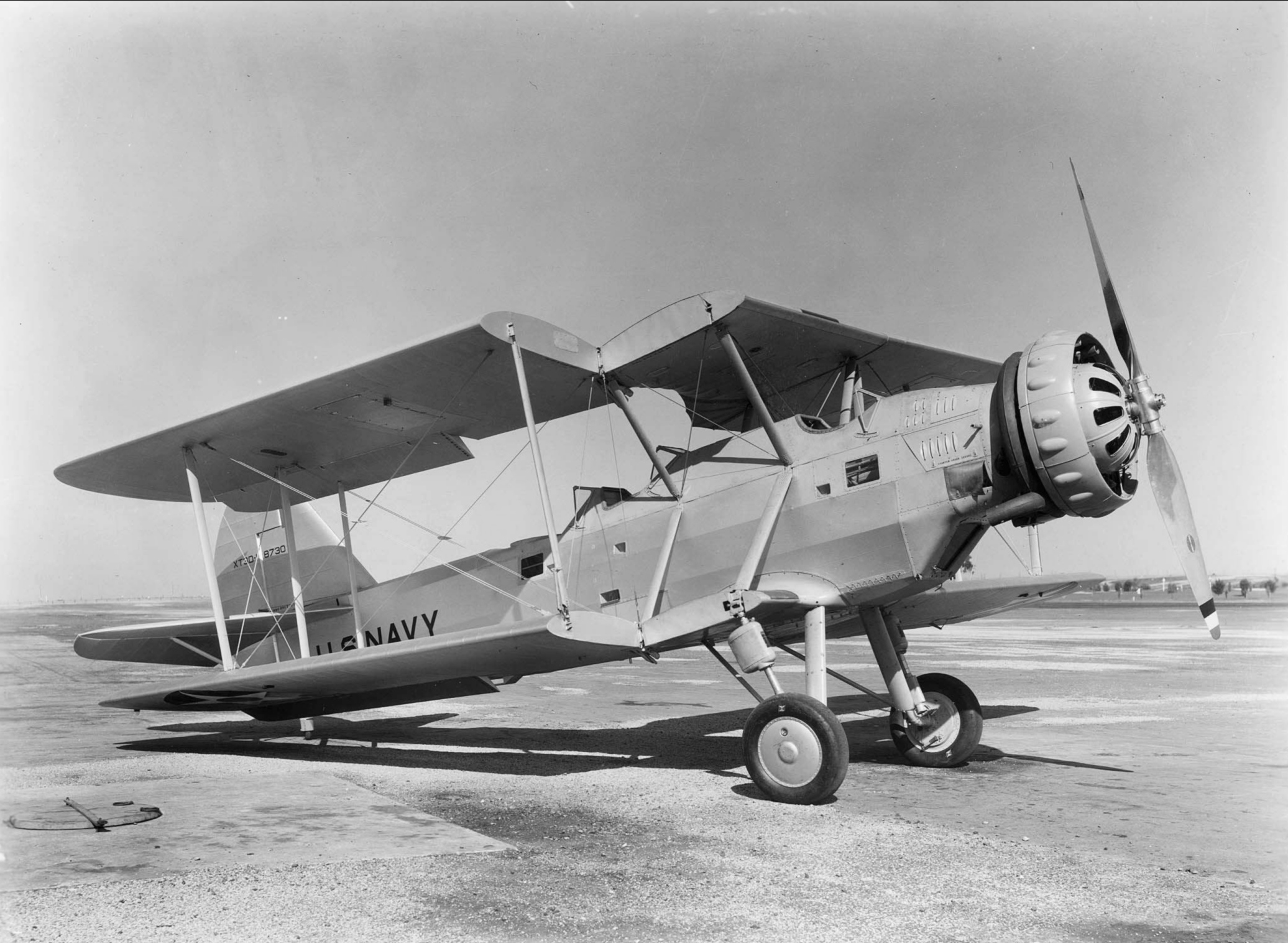 A U.S. Navy Douglas XT3D-1 (BuNo 8730) pictured on the ground at an unidentified location in June 1931. The Douglas T3D was ordered as a successor for the Martin T4M and Great Lakes TG torpedo-bombers. It featured folding wings and a forward-looking window in the fuselage to assist in the aiming of ordnance. It was delivered to the U.S. Navy in 1931, but flight testing revealed inadequate performance, particularly with the Pratt & Whitney Hornet S2B1-G engine. Subsequently, the aircraft was equipped with a Pratt & Whitney XR-1830-54 and enclosed cockpits. The aircraft was then re-designated XT3D-2 and delivered to the U.S. Navy in 1933, by which time the service had shifted its attention to dive-bombing. The aircraft remained in use as an engine test bed until 1941, at which time it was stricken from the U.S. Navy inventory.